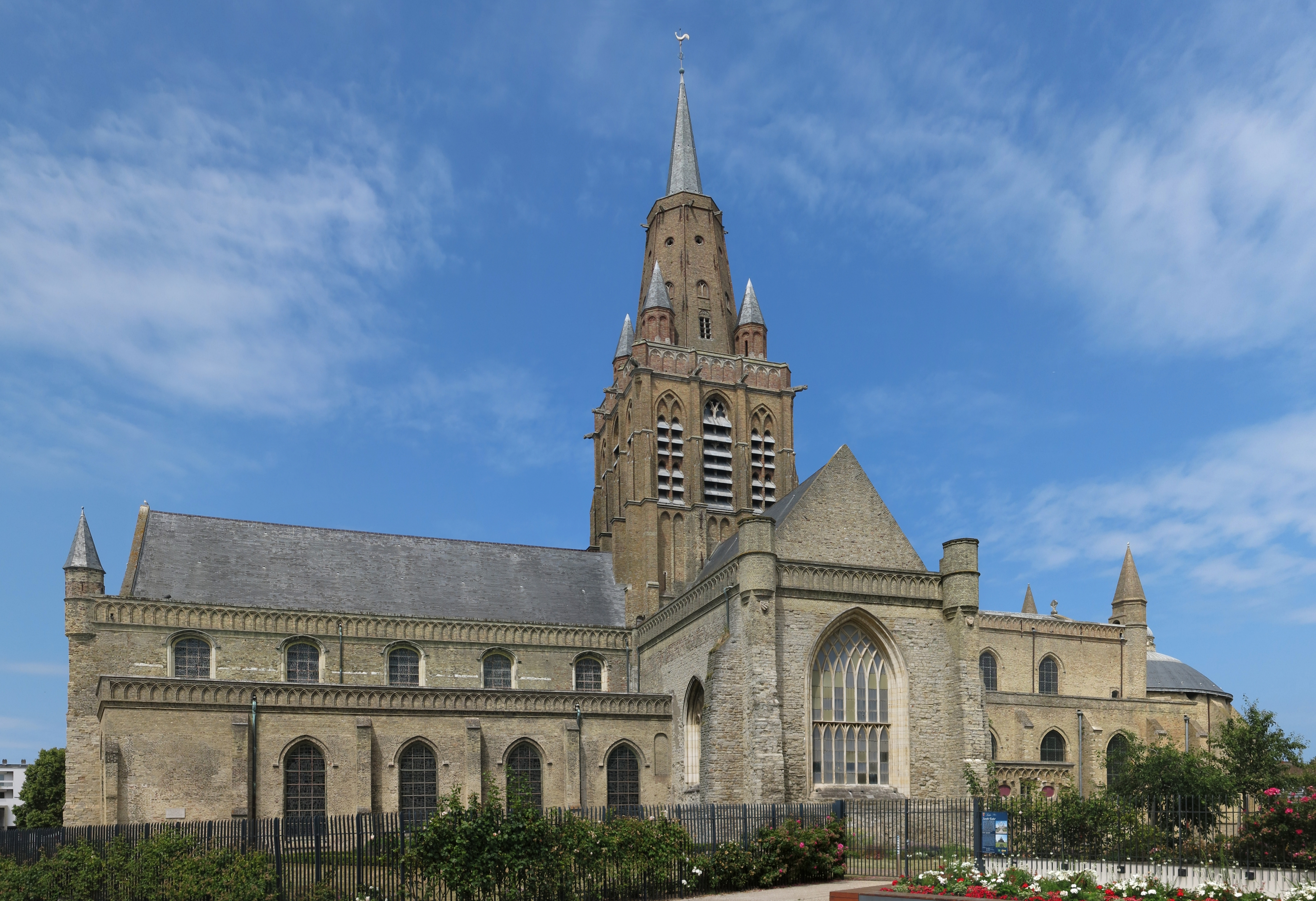 Church Notre-Dame in Calais